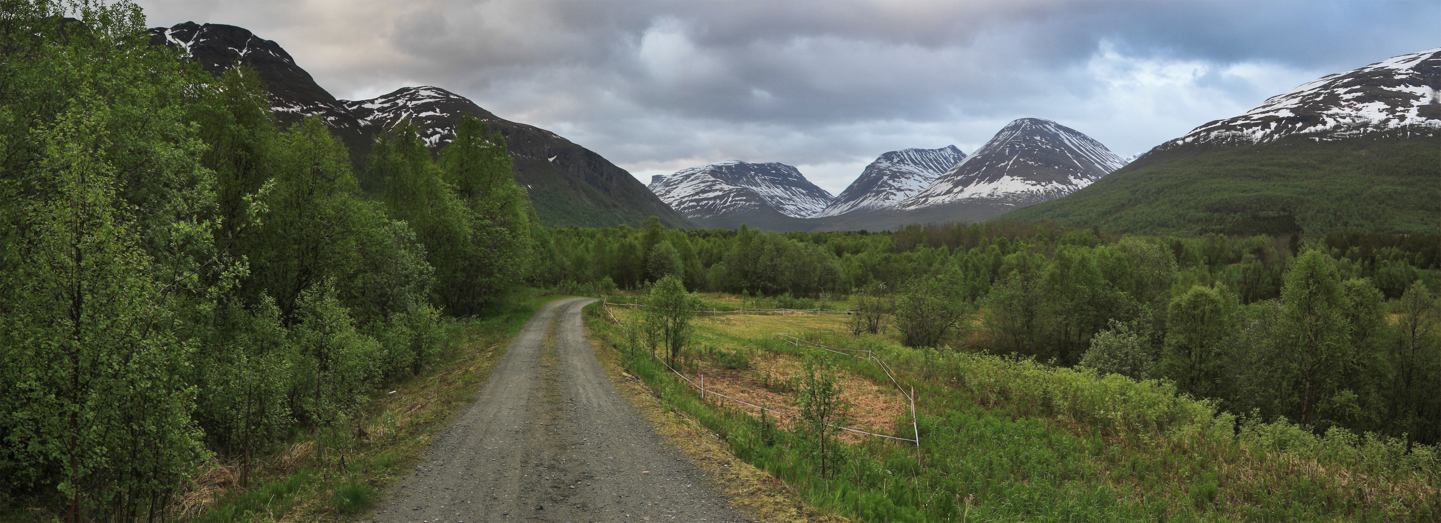 A countryside landscape in Balsfjordeidet in Balsfjord, Troms, Norway in ”night” in 2011 June.